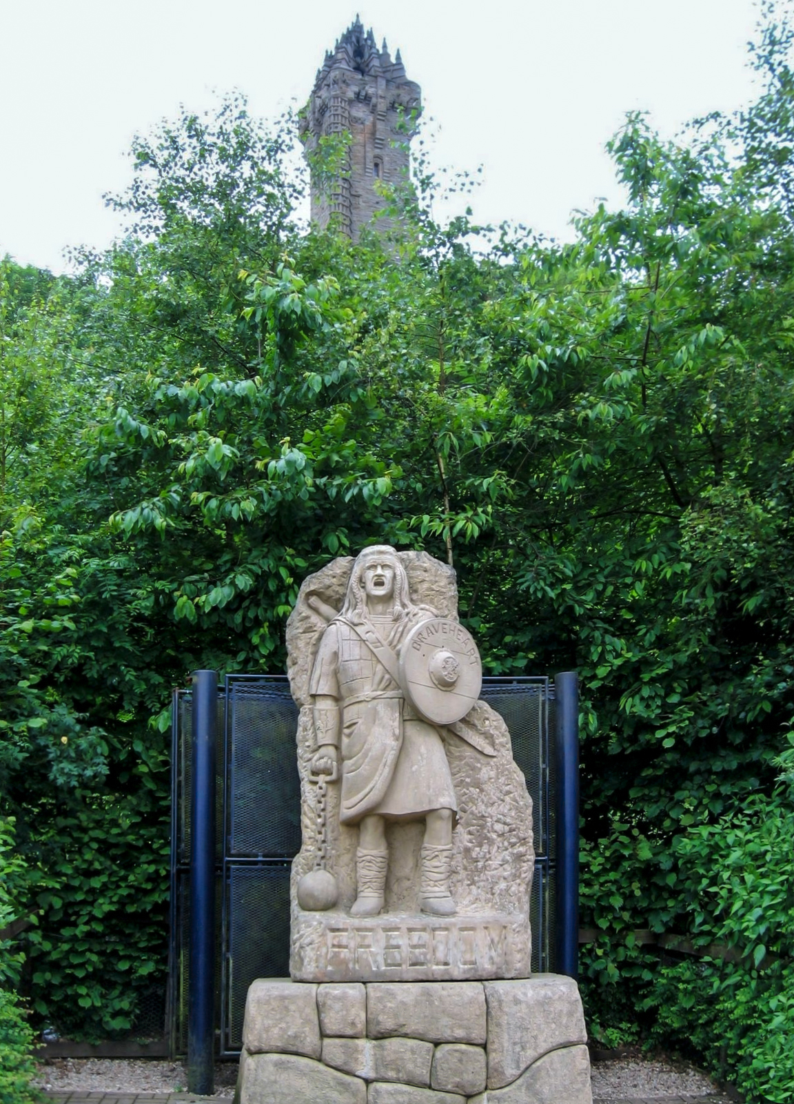 Wallace Monument commemorates the exploits of William Wallace (1270-1305) Stirling, Scotland.